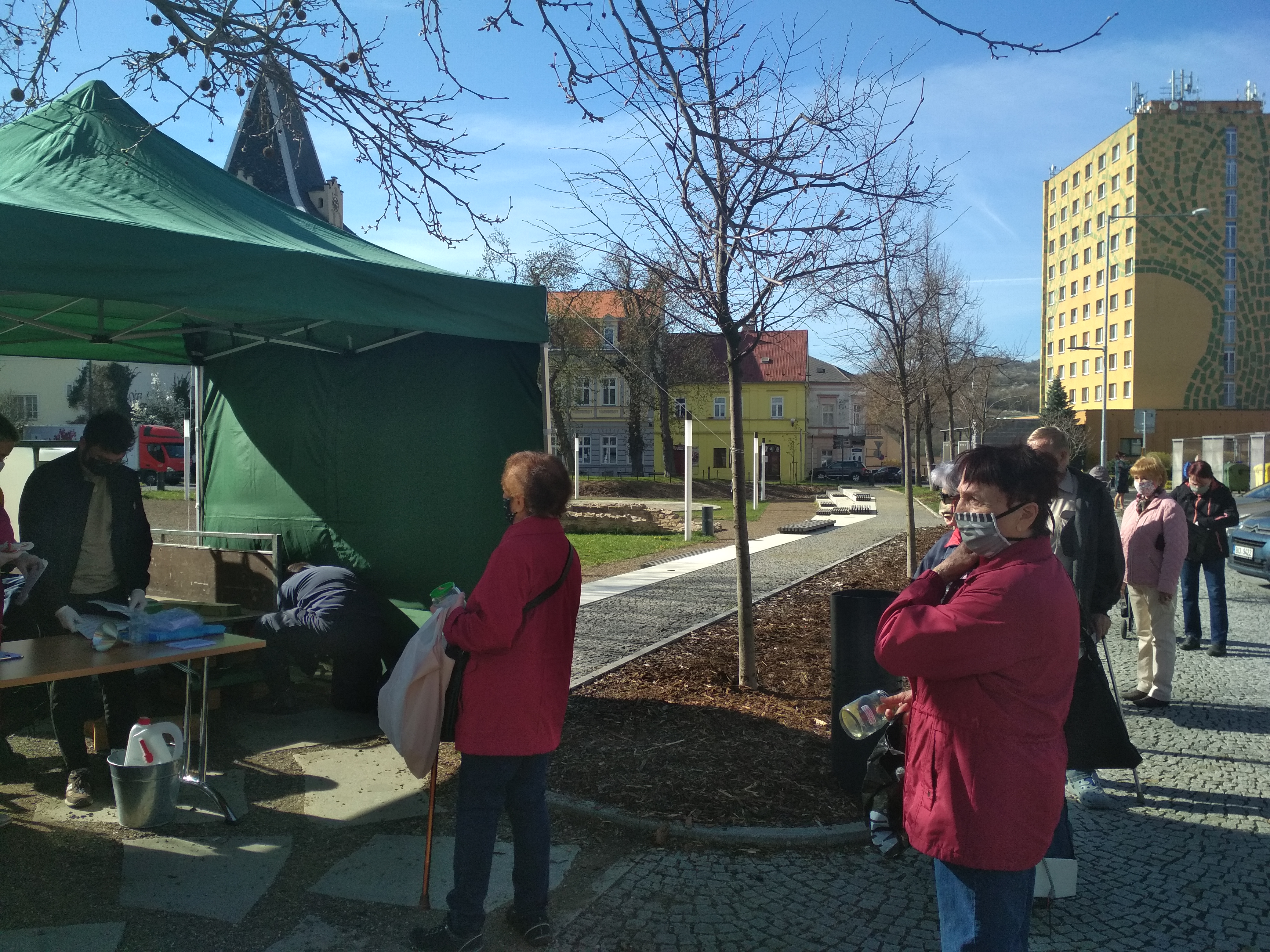 Distribution of hand sanitizer to seniors in Kadaň during COVID-19 pandemic